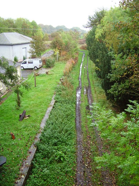 Edrom Station Former station on the Berwickshire Railway. Looking towards Chirnside.